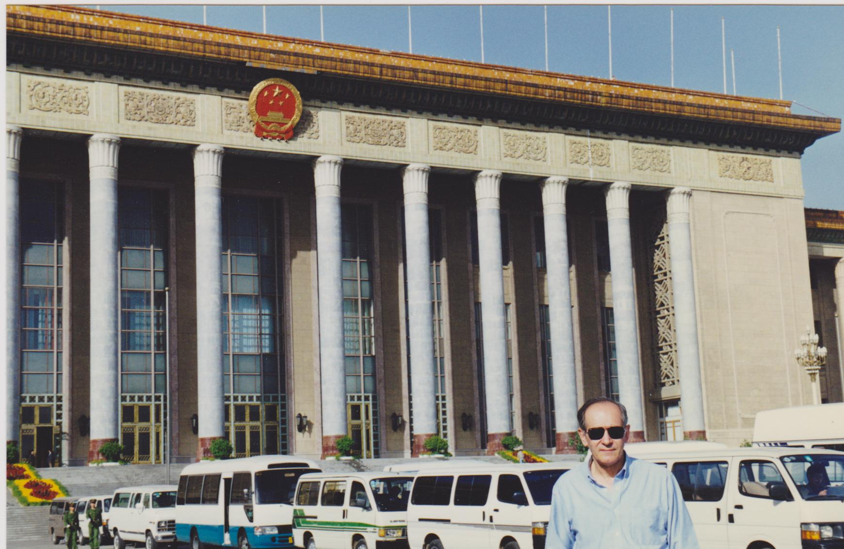 Great Hall of the People in Beijing